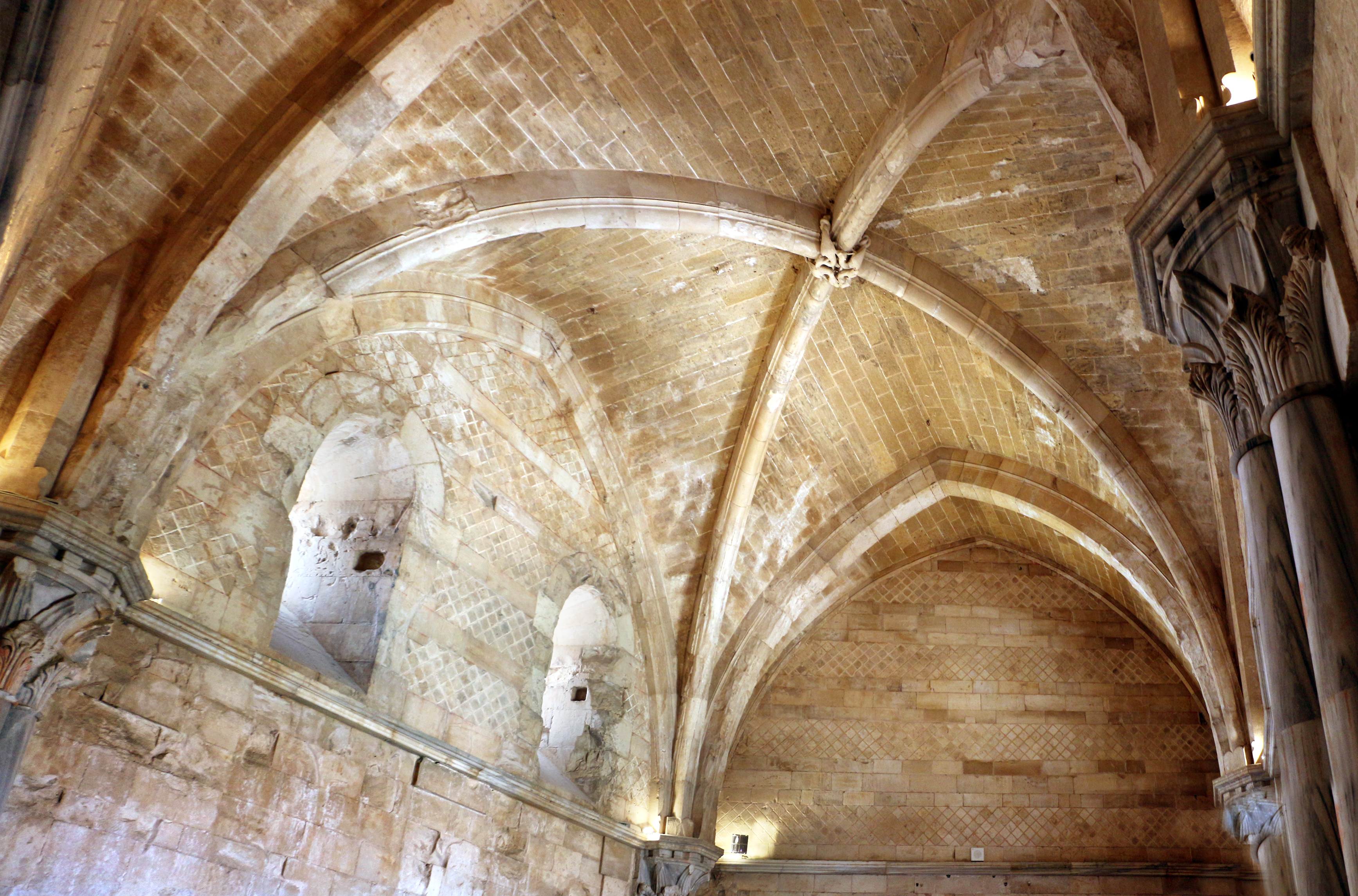 Interior of the Castel del Monte